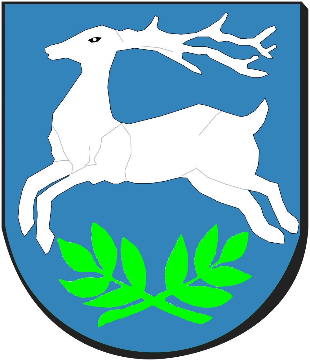 Coat of arms - Bładnice (powiat cieszyński)